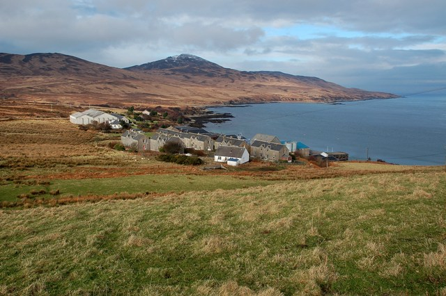 Bunnahabhain View Looking towards the distillery village of Bunnahabhain from high up beside the access road.